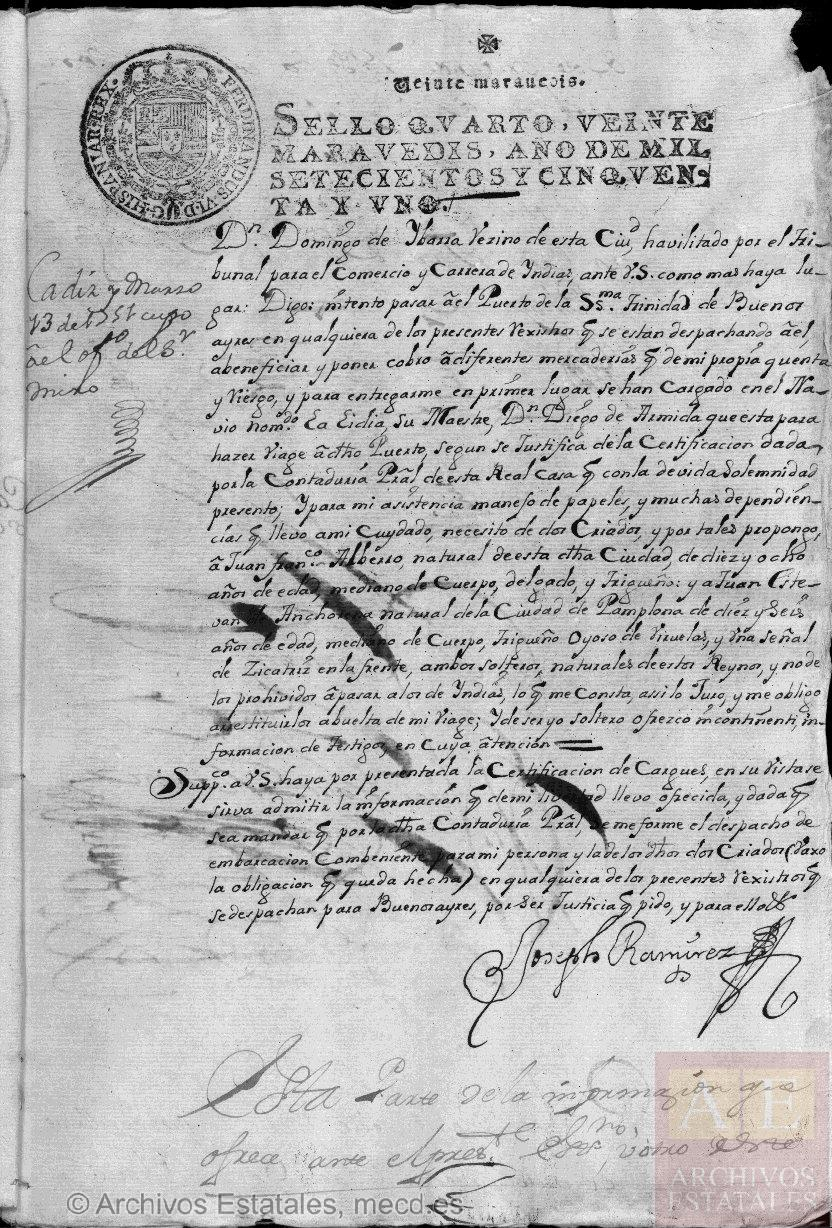 This work is in the public domain in the United States because it meets three requirements: it was first published outside the United States (and not published in the U.S. within 30 days), it was first published before 1 March 1989 without copyright notice or before 1964 without copyright renewal or before the source country established copyright relations with the United States, it was in the public domain in its home country on the URAA date (January 1, 1996 for most countries). For background information, see the explanations on Non-U.S. copyrights. Note: This tag should not be used for sound recordings.